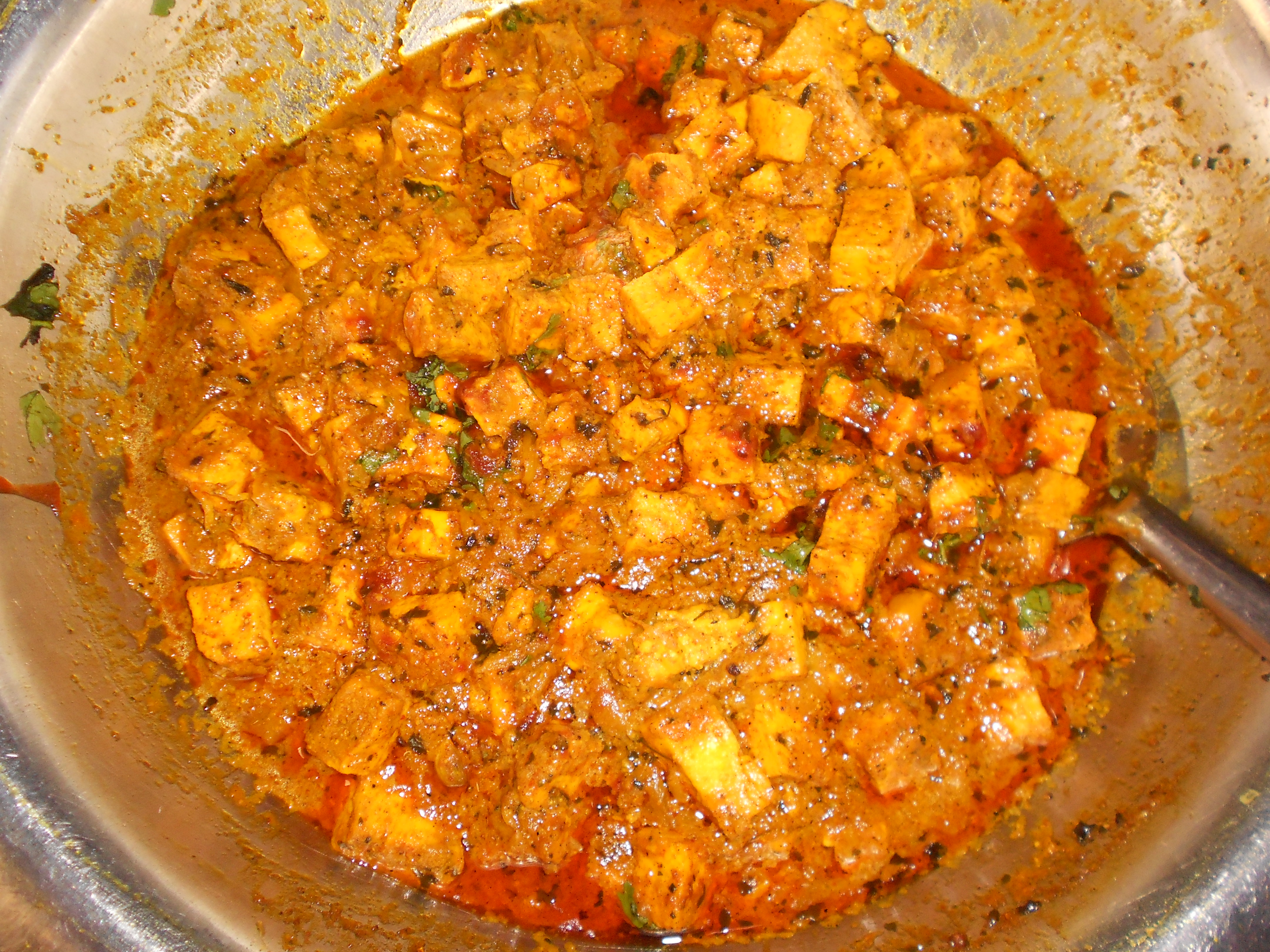 Ndian dish "Paneer" ଓଡ଼ିଆ: ପନିର ତରକାରି